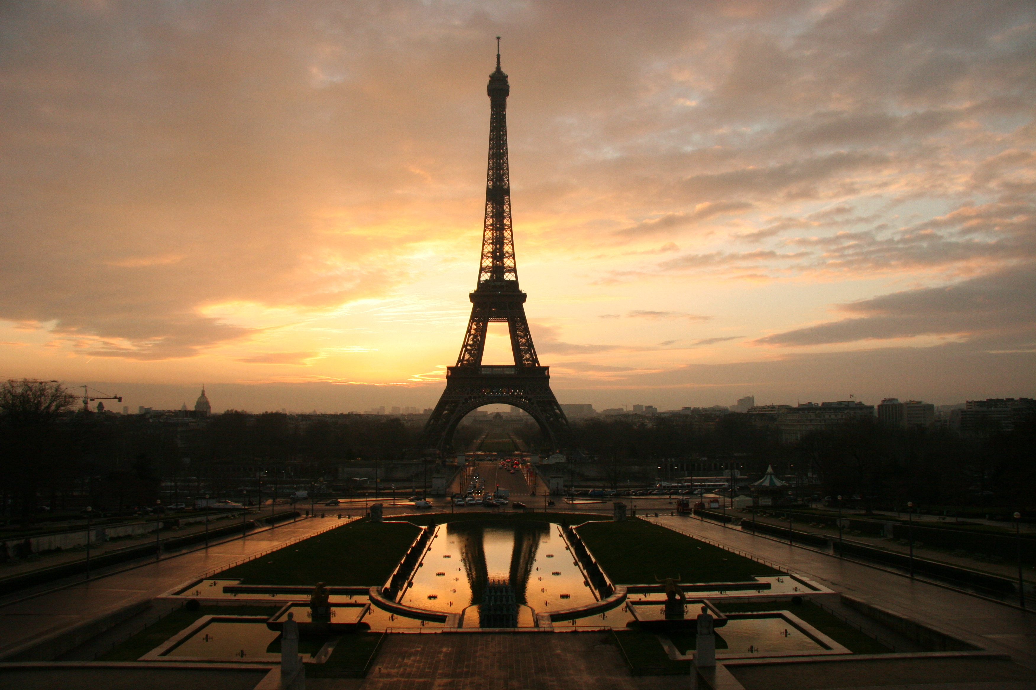 Eiffel tower at dawn, taken from place du trocadero. This picture is uploaded so that I can prove I am the author of , which was taken less than one minute after this one.